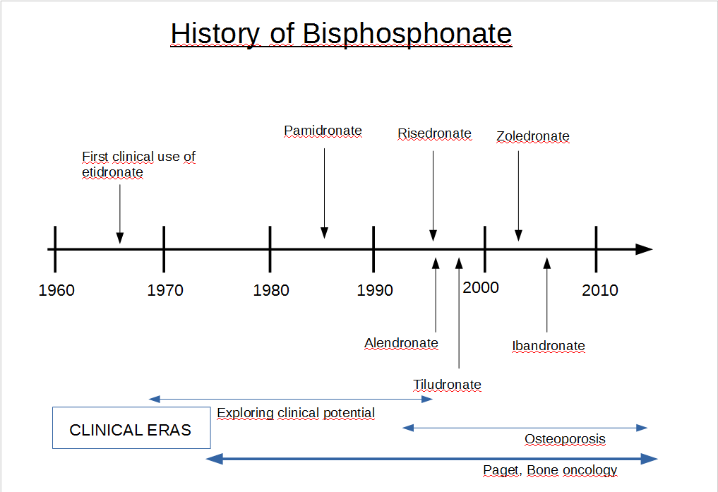 History of biphosphonates